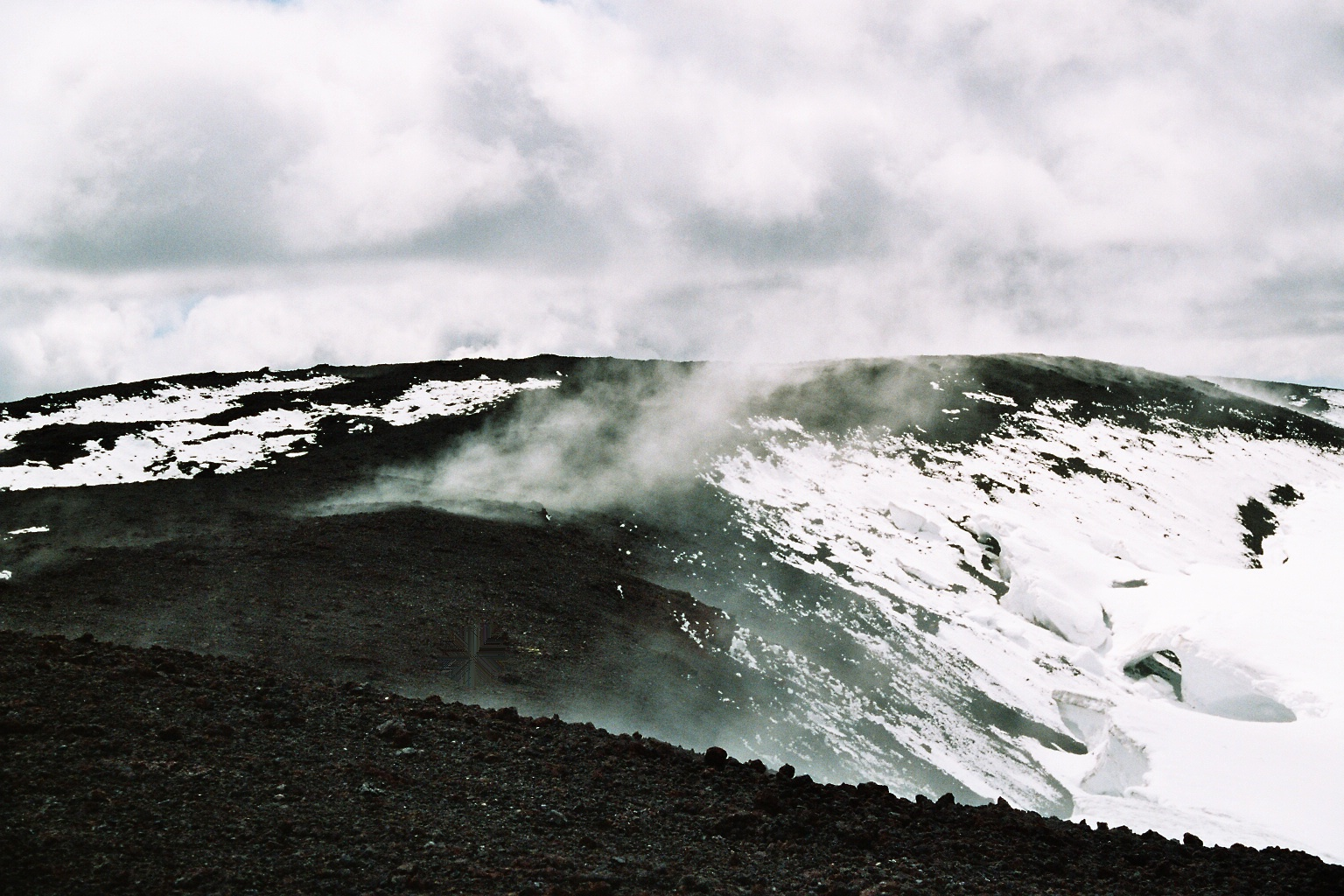 It´s always nice to have a little smoke when one is on a volcano. Let´s not ruin a good photo caption with some boring facts such as this being steam instead of smoke. Anyway, this photo is taken on top of the volcano Hekla.